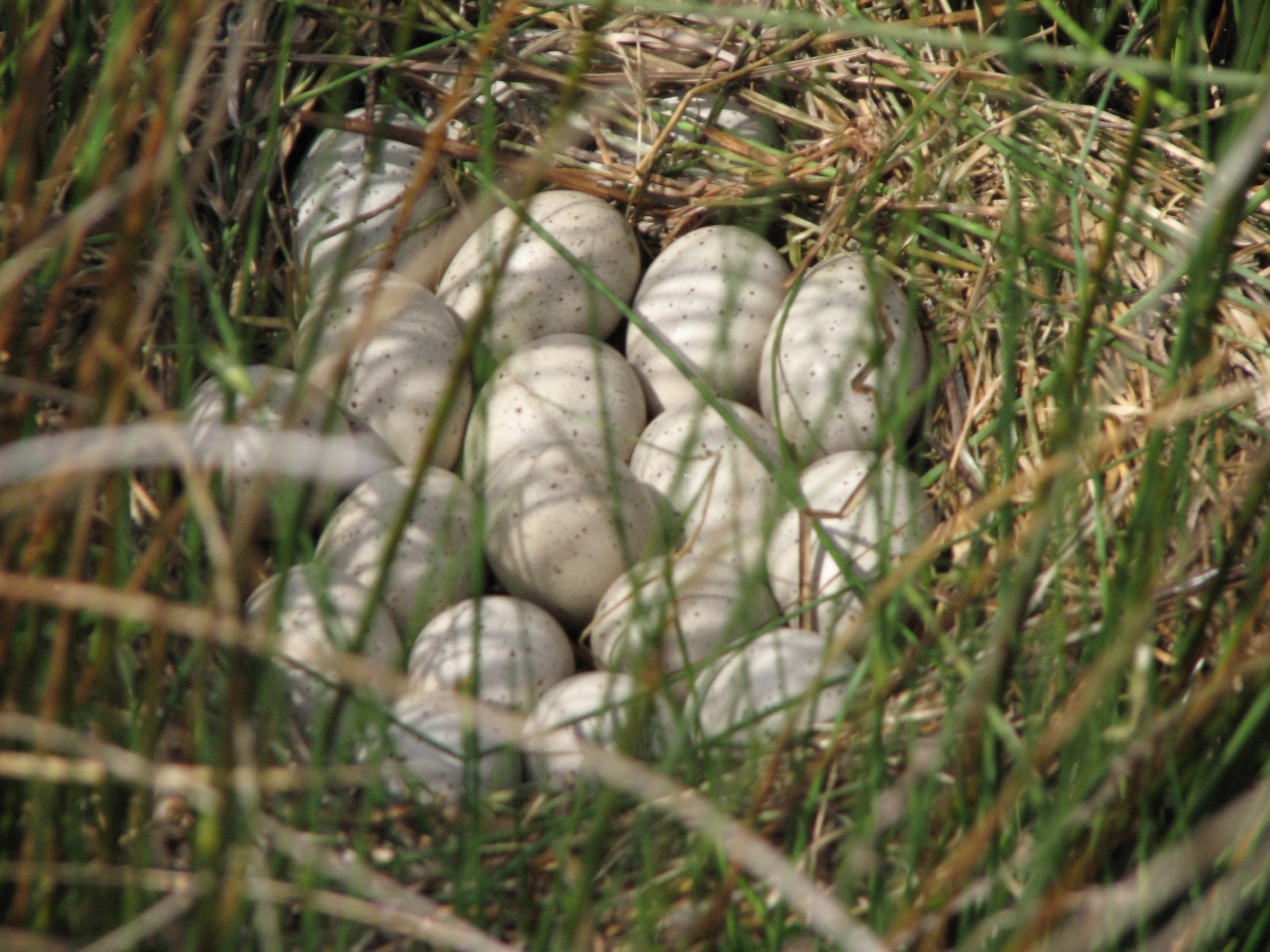 Eurasian Coot (Fulica atra) nest and eggs